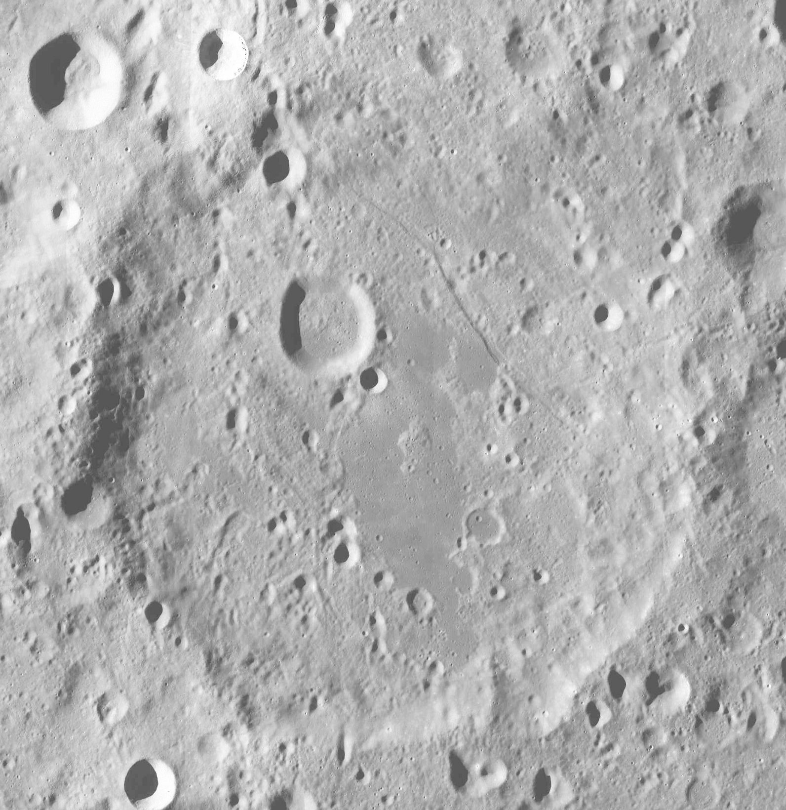 Crater Furnerius (detail of LRO - WAC global moon mosaic; Mercator projection)